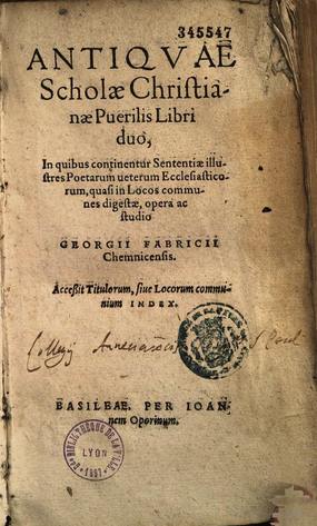 Antiquae scholae christianae puerilis, 1565, George Fabricius (1516-1571)